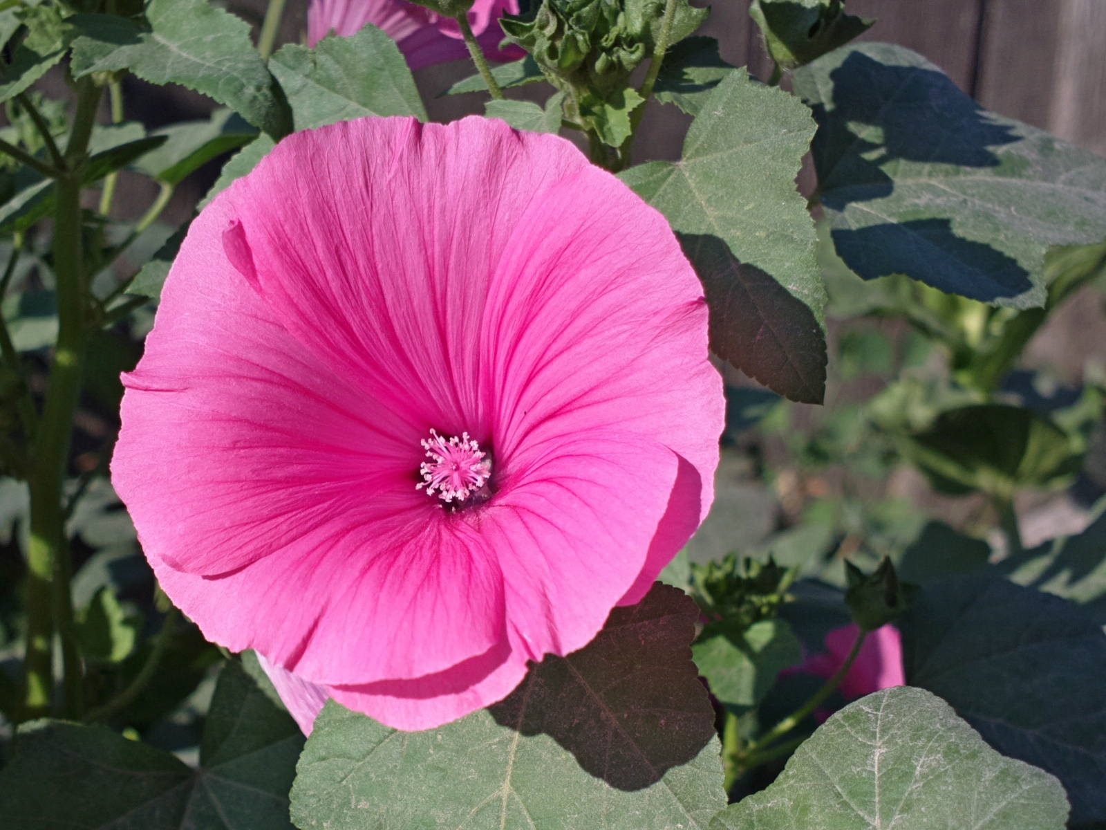 A pink flower 2013-07-13-1081